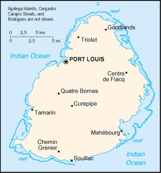 Map of Mauritius showing towns.